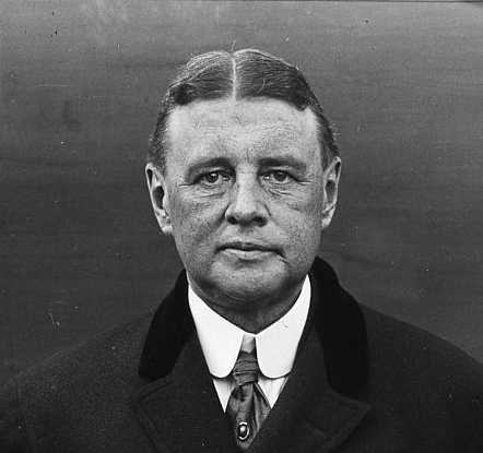 Photograph of Louis Winslow Austin taken for security identification purposes at the US Bureau of Standards